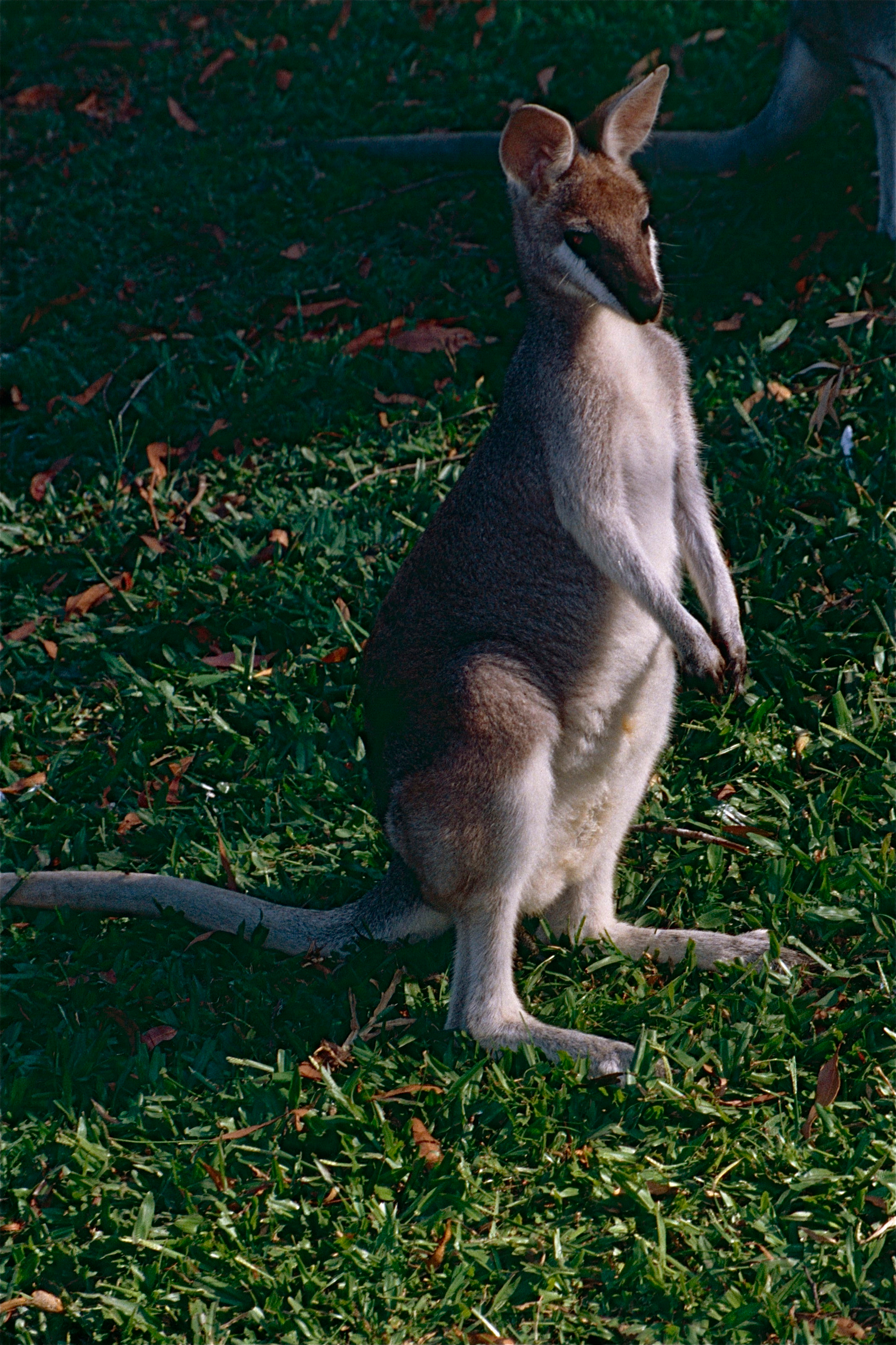 David Fleay Wildlife Park, Burleigh Heads, Gold Coast, South Queensland, AUSTRALIA Scanned Slide from Dec 2000